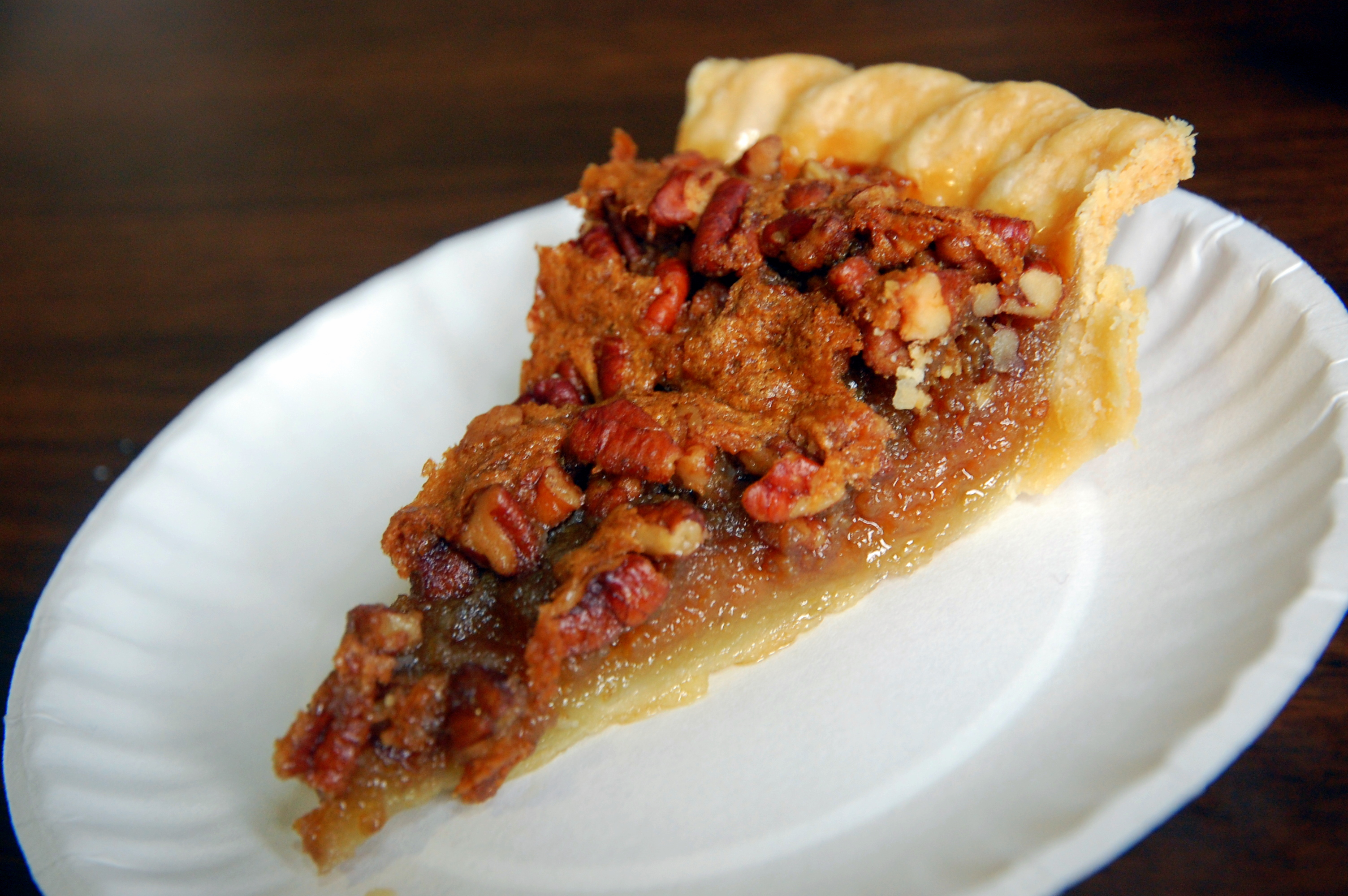 I have been informed that PEE-cans are for long road trips and puh-KAHNs are nuts. Shrine Mont Orkney Springs, Virginia, USA